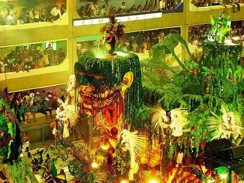 Samba schools in Sambadrome 2008 author Mike Pitt